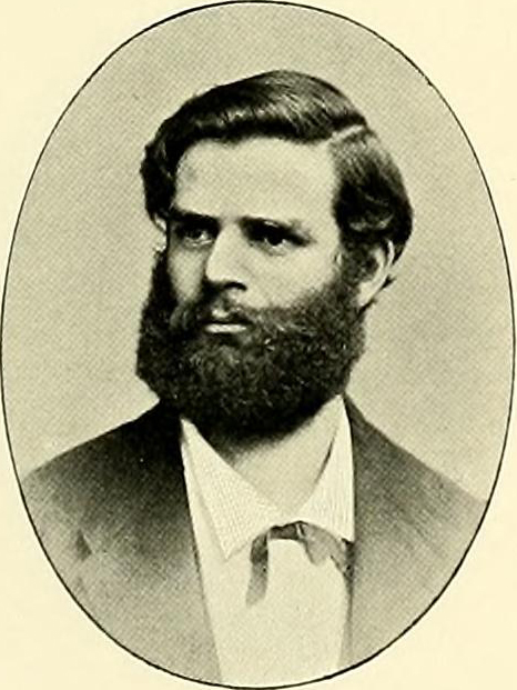 Portrait of the German botanist Paul Magnus